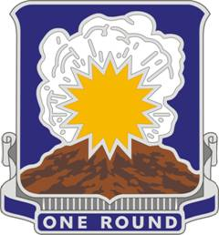 Distinctive Unit Insignia of the 75th Cavalry Regiment, as well as the 705th Tank Destroyer Battalion, 330th Mechanized Cavalry Reconnaissance Squadron, & 705th Tank Battalion